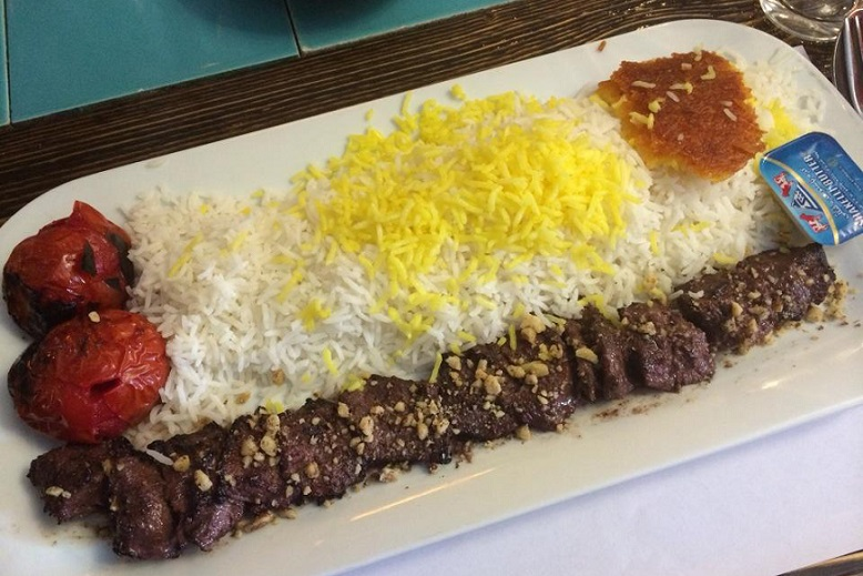 Torsh kebab, a traditional sour Iranian kebab from Gilan and Mazenderan. It is marinated in a paste made of crushed walnuts, pomegranate juice, and olive oil.